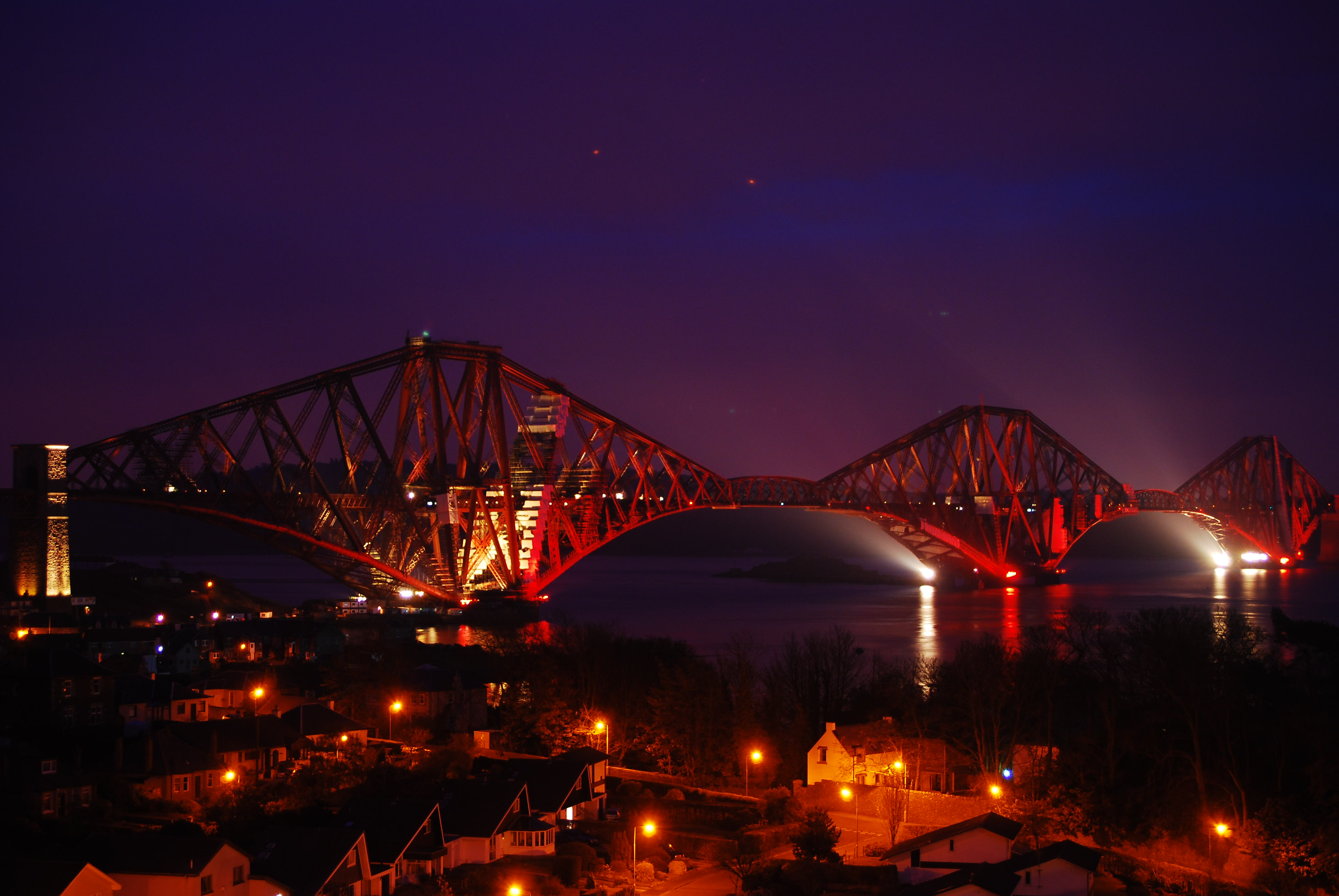 Forth Rail Bridge (Scotland) early in the morning